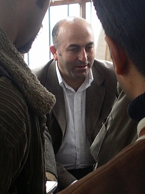 Alanya Member of Parliament, Mevlüt Çavuşoğlu visting the McGhee Center on February 20, 2006. He is surrounded by journalists and bodyguard.